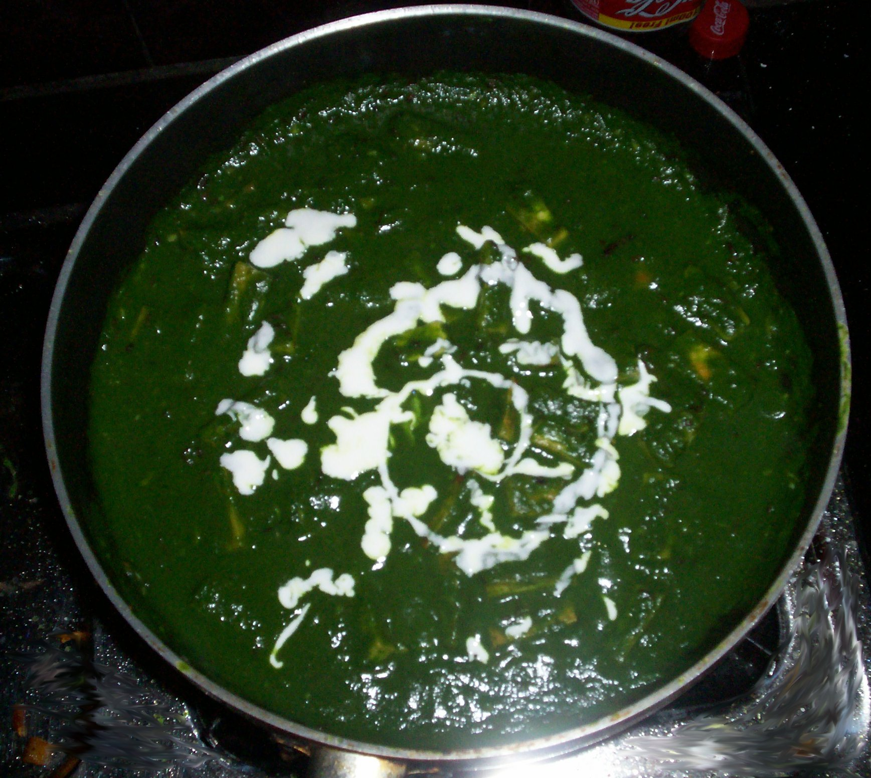 cliked by me on a kodak c310 camera